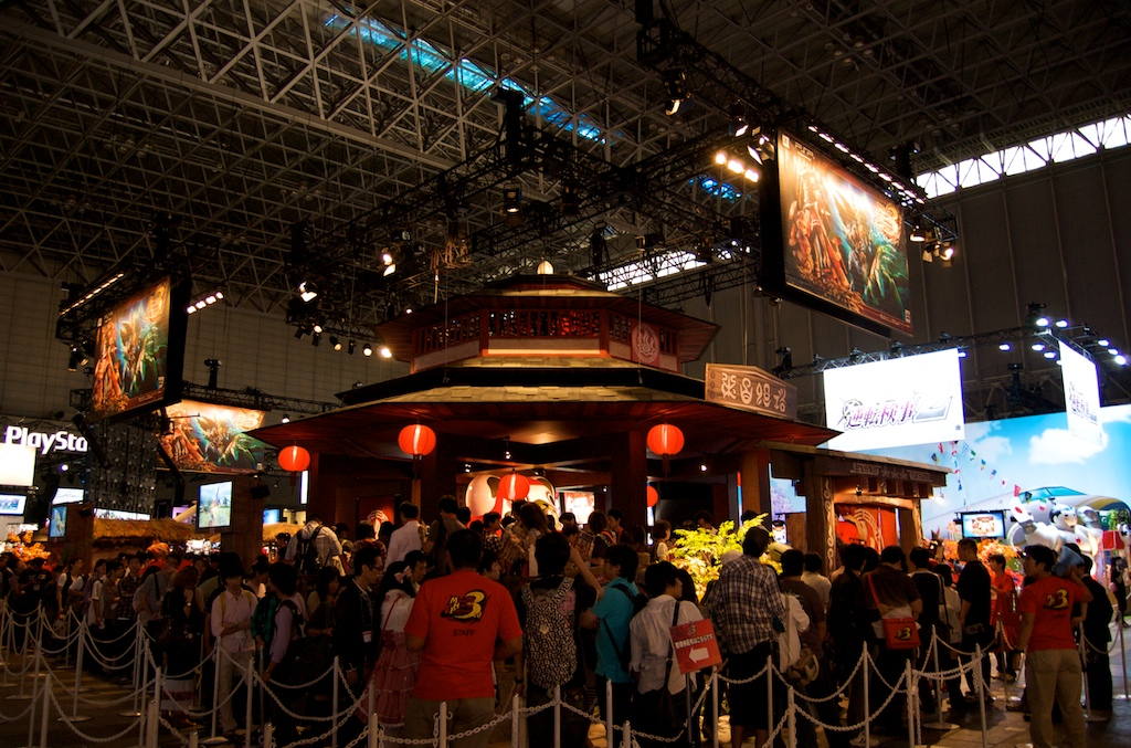 Monster Hunter pagoda, Tokyo Game Show 2010.